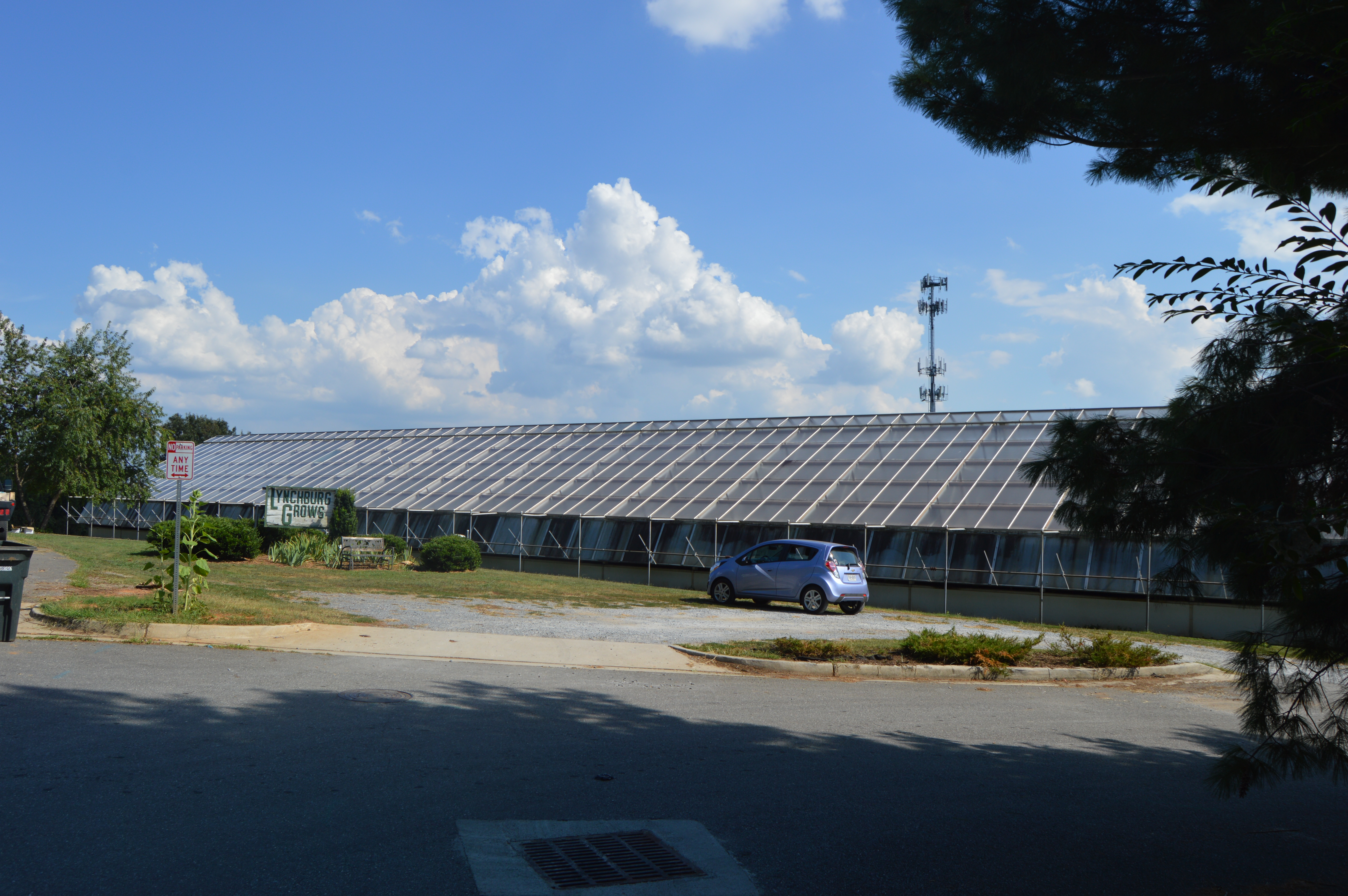 Northern side of one of the greenhouses at the Doyle Florist complex, located at 1339 Englewood Street in Lynchburg, Virginia, United States. Built in 1920, the complex comprises a historic district that is listed on the National Register of Historic Places.